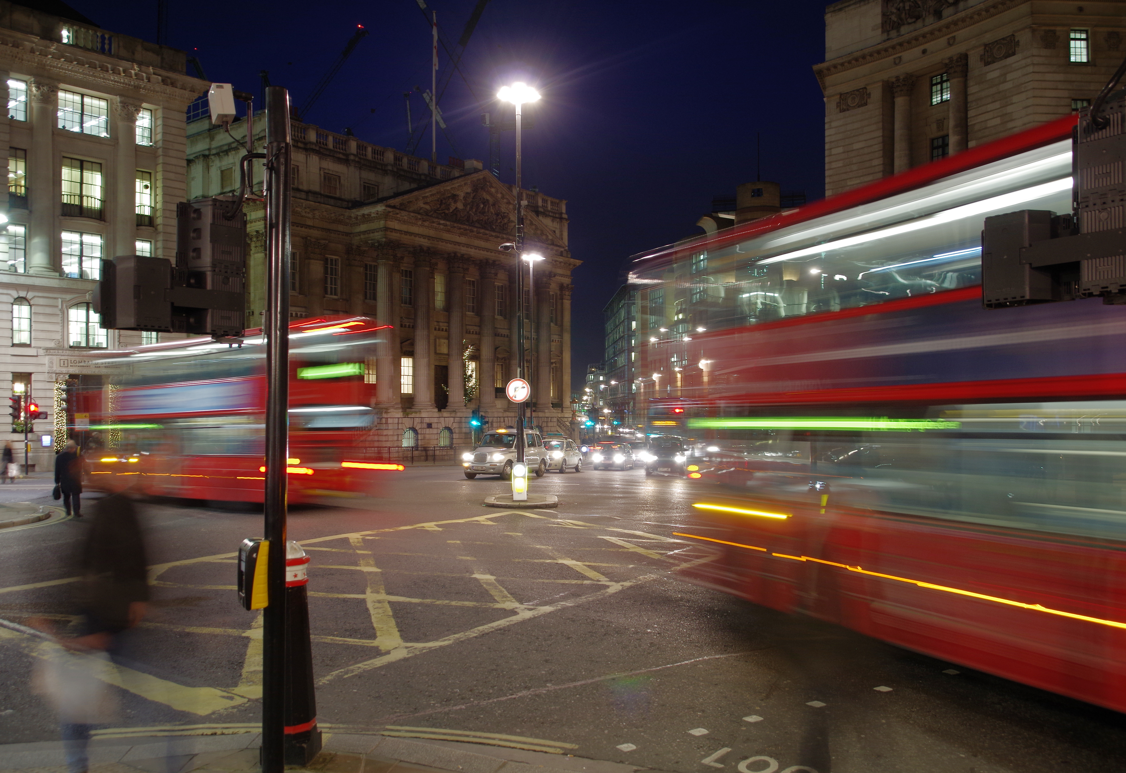 Buses travel through the junction of Threadneedle Street, Cornhill, Prince's Street, King William Street and Mansion House Street in the City of London.